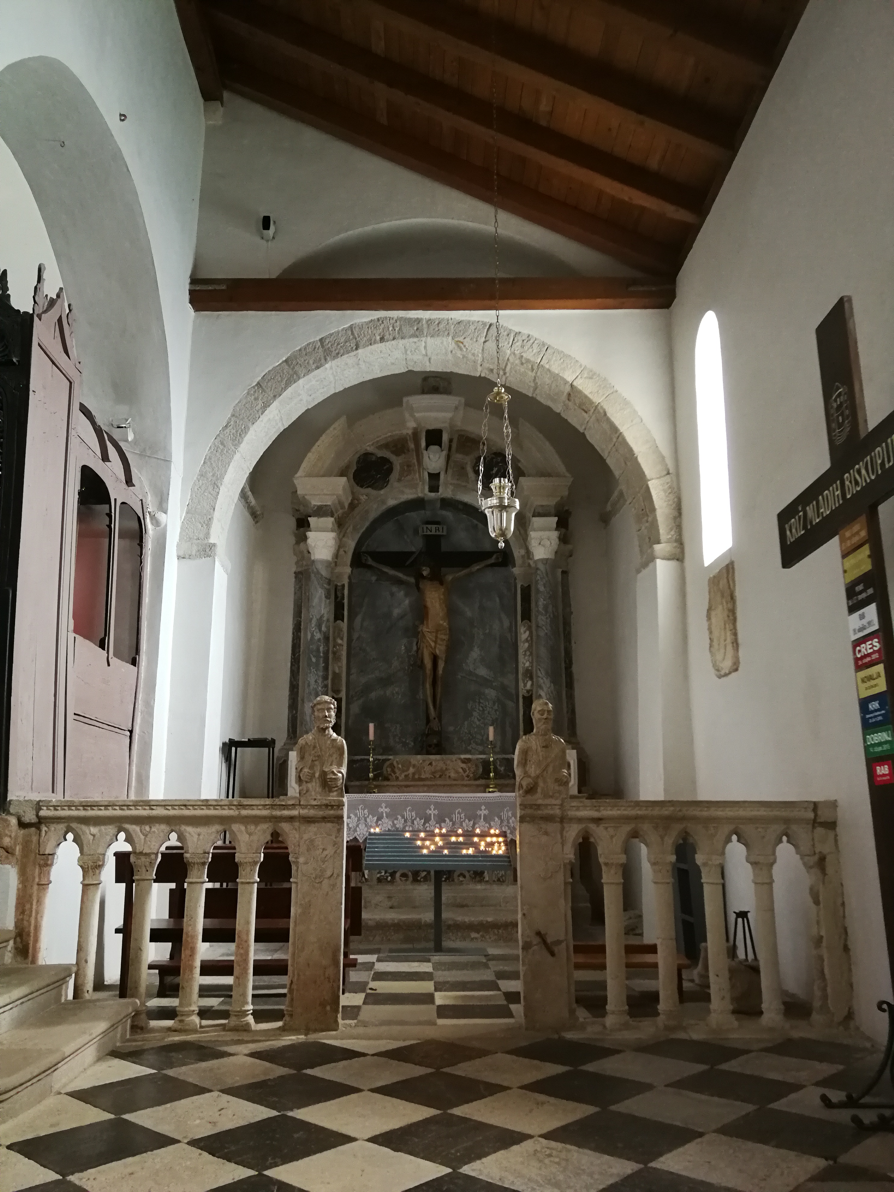 Interior view of the Cathedral of the Assumption of the Blessed Virgin Mary (Rab), northern nave aisle.